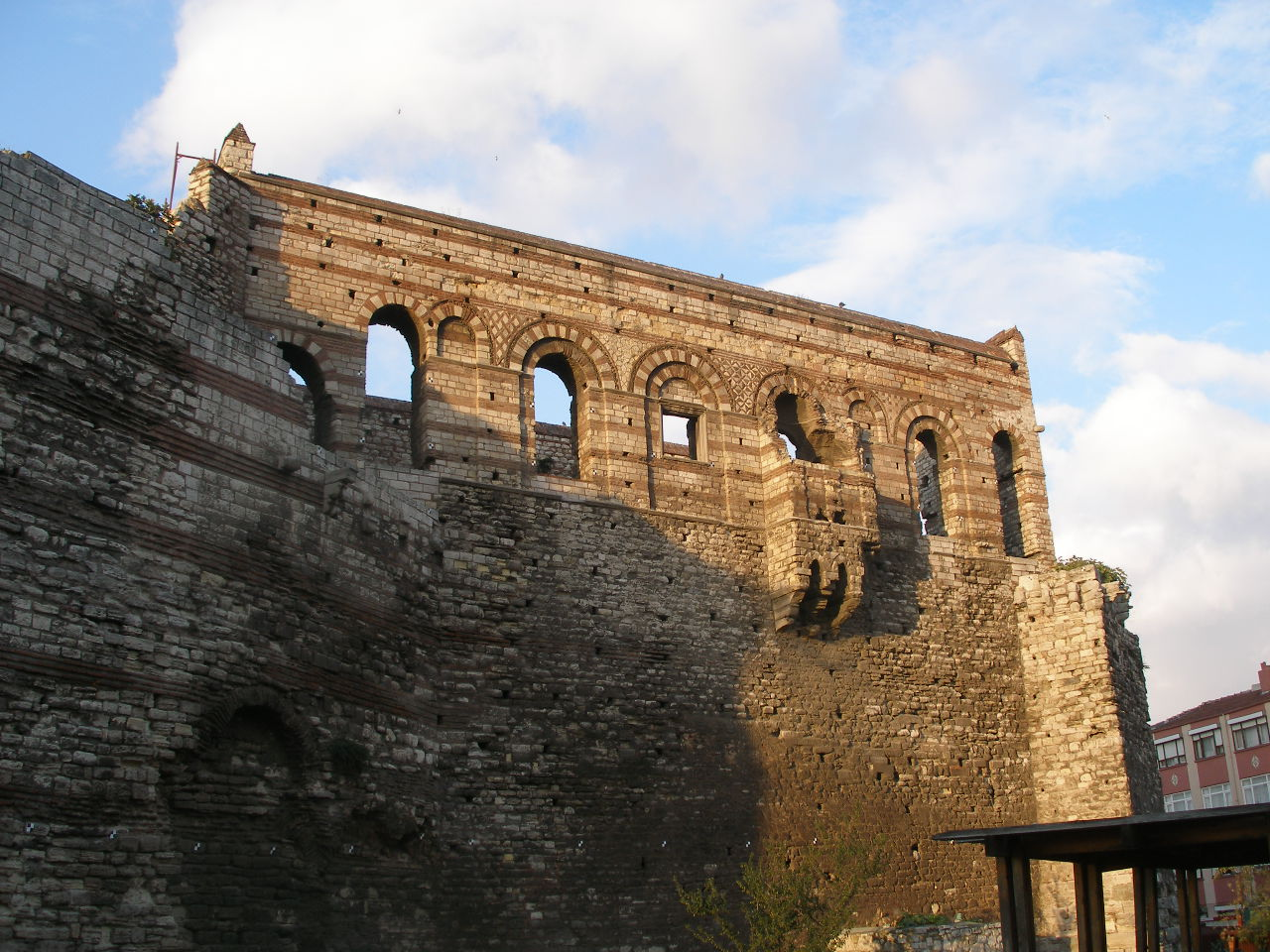 The Palace of Porphyrogenitus, southern wall.